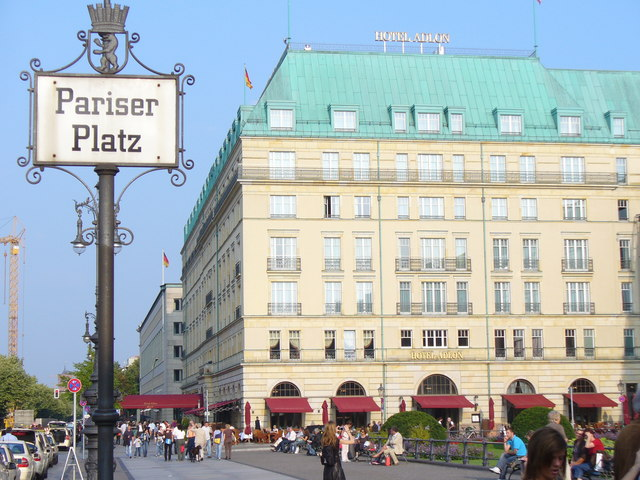 Hotel Adlon